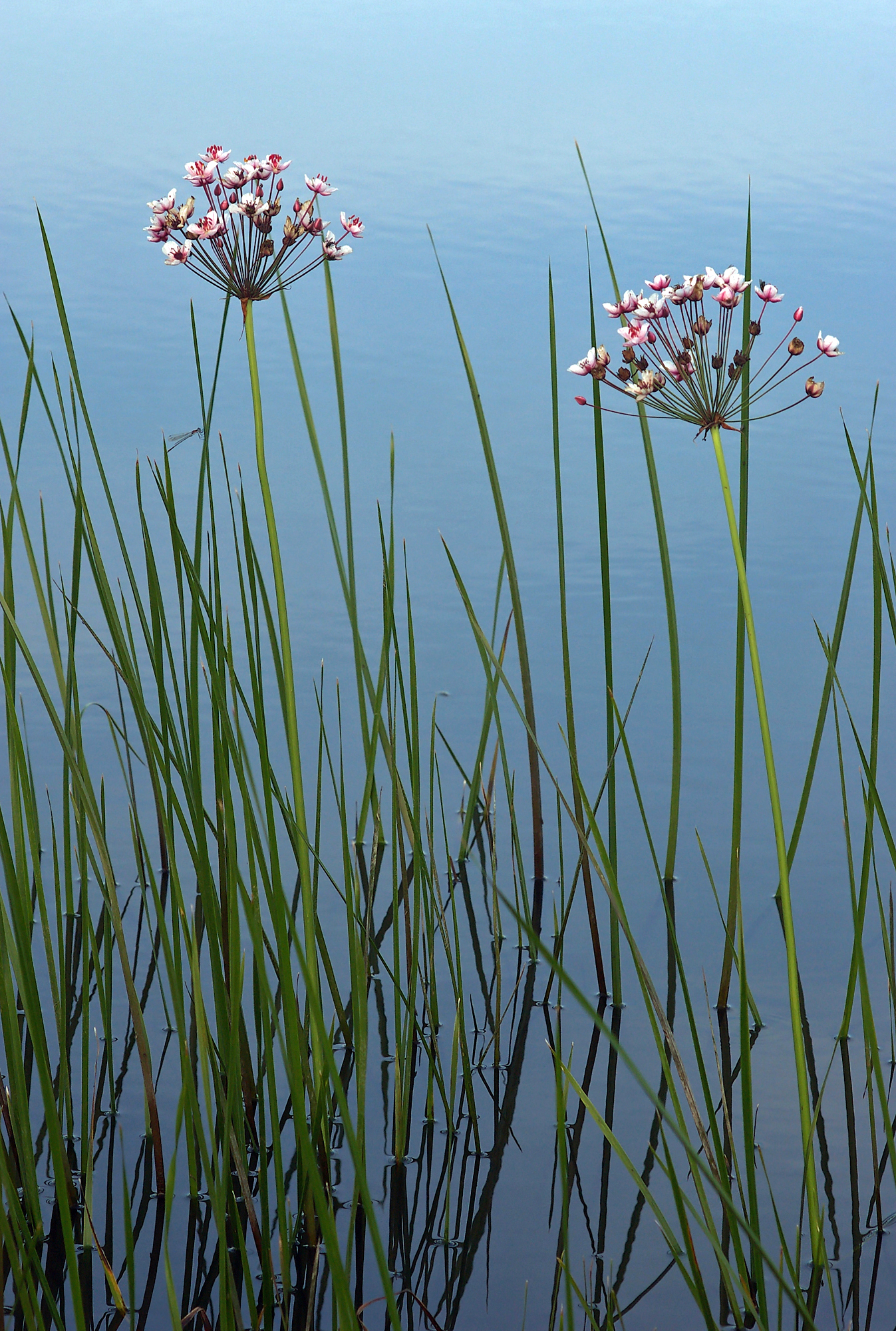 Plants of Flowering Rush, Butomus umbellatus, in a natural habitat near the Elbe River.